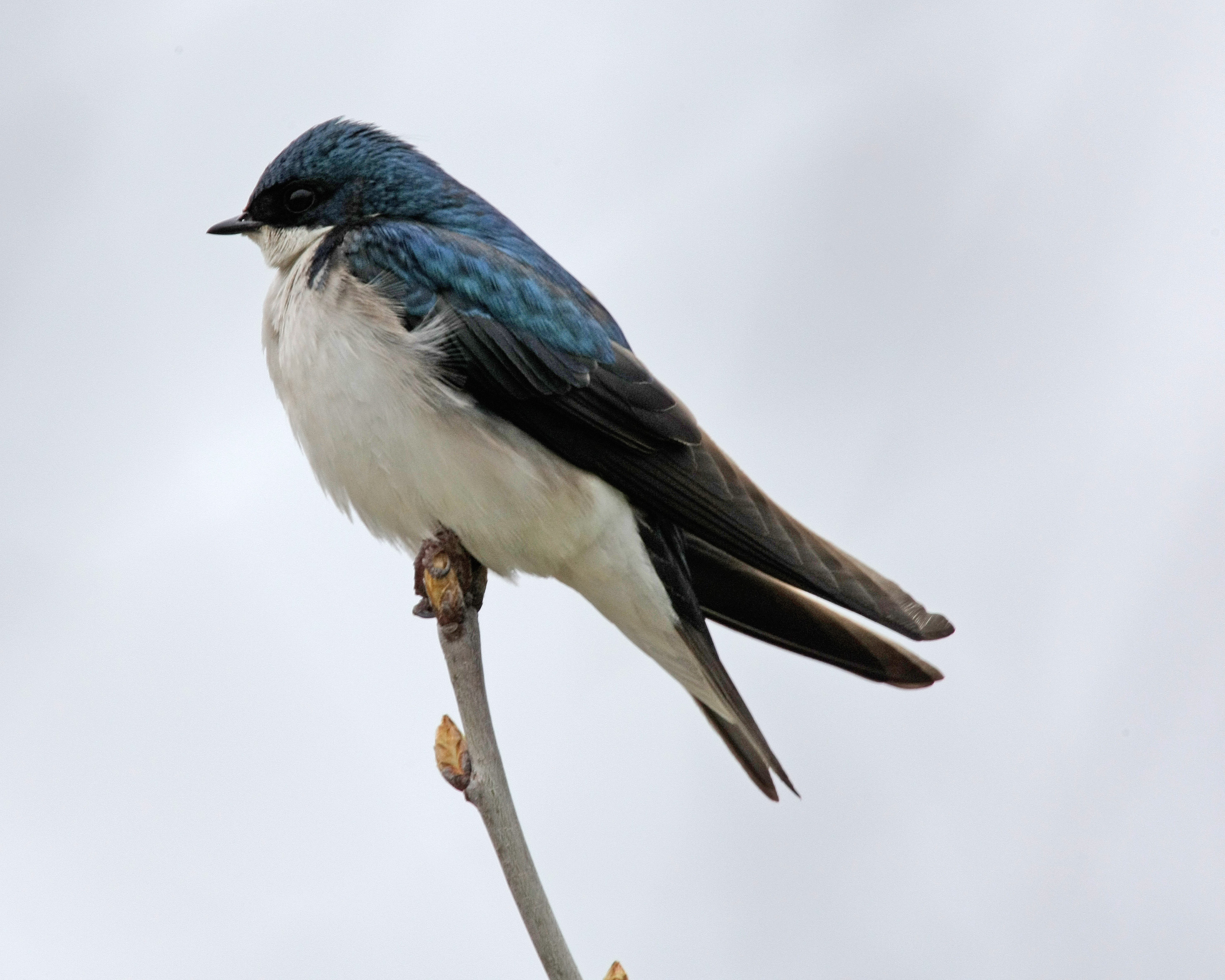 A Tree Swallow in Madison, Wisconsin, USA.